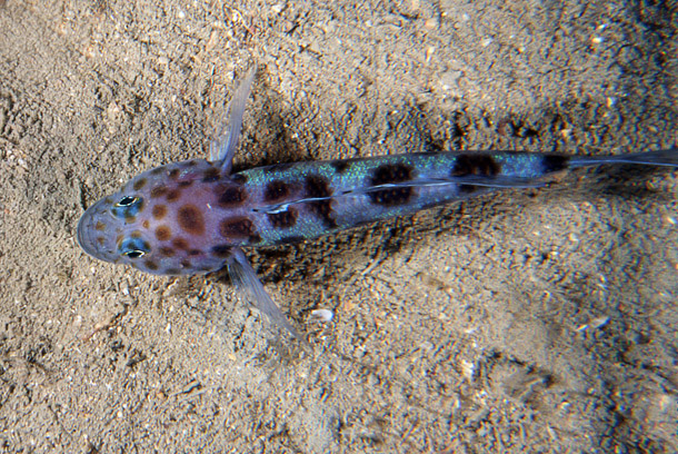 Thorogobius ephippiatus photographed in Tuscany (Italy). Photo by Stefano Guerrieri